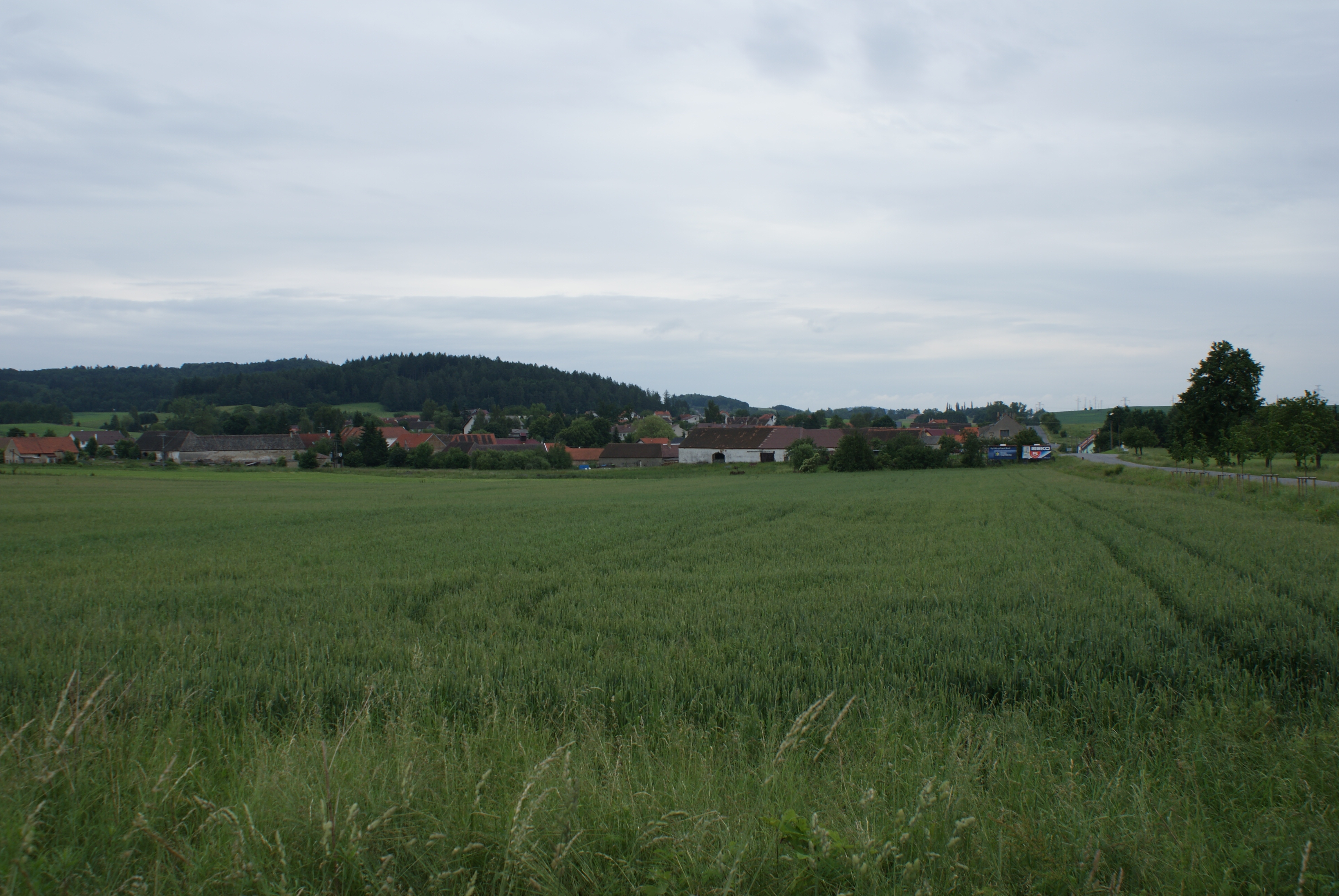 Semice, part of Písek, Czech Republic, general view. Česky: Semice, Písek, celkový pohled